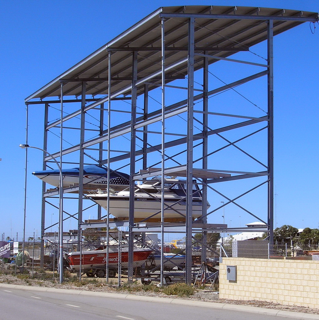 Boat rack storage - Mandurah, Western Australia